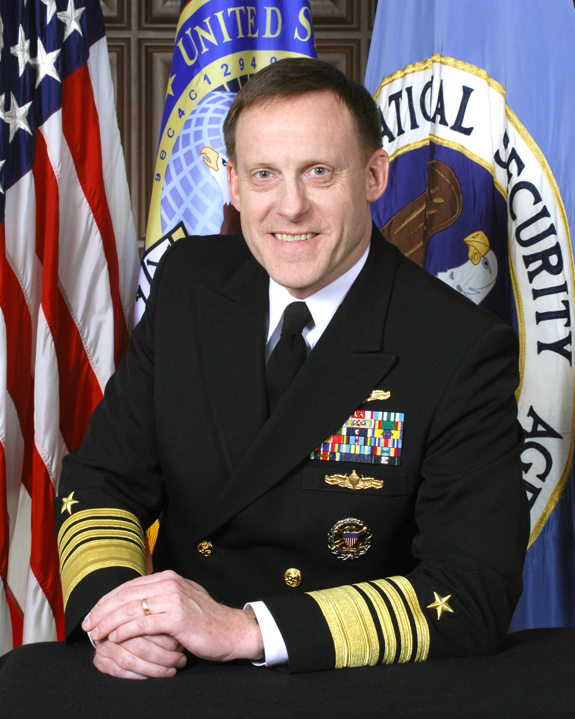 Admiral Michael S. Rogers, USNDirector, National Security AgencyChief, Central Security ServiceCommander, U.S. Cyber Command